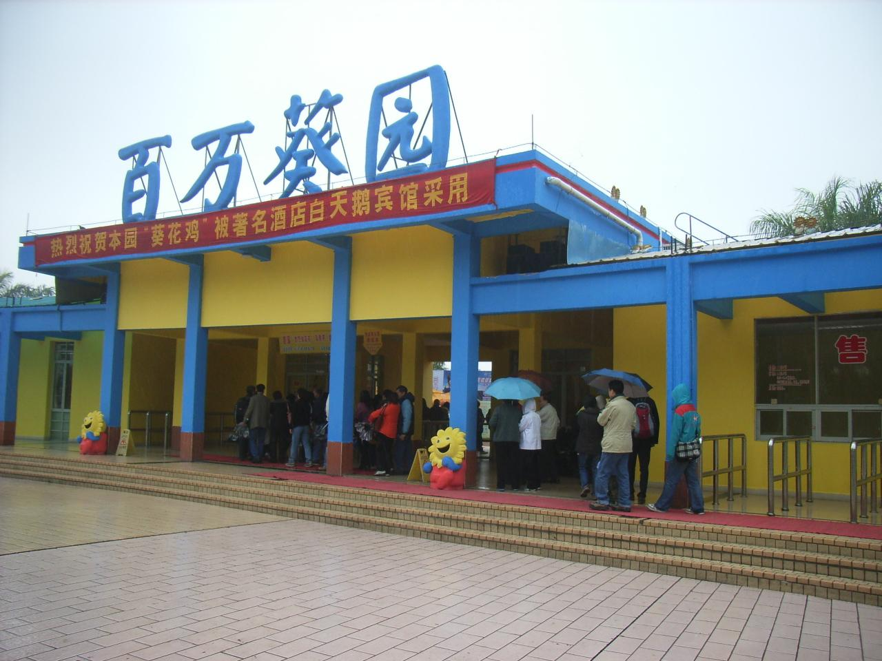 廣州zh:百萬葵園 [1]